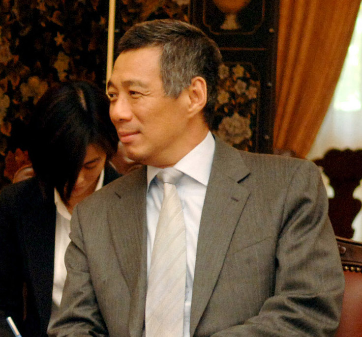 Singapore's Prime Minister Lee Hsien Loong meeting United States Secretary of Defense Donald H. Rumsfeld at the Istana Singapore. Rumsfeld was in Singapore to meet with regional allies and attend the fifth annual International Institute for Strategic Studies Asia Security Conference, known as the Shangri-La Dialogue. See DefenseLINK news photos. United States Department of Defense (2006-06-03). Retrieved on 2009-05-10.